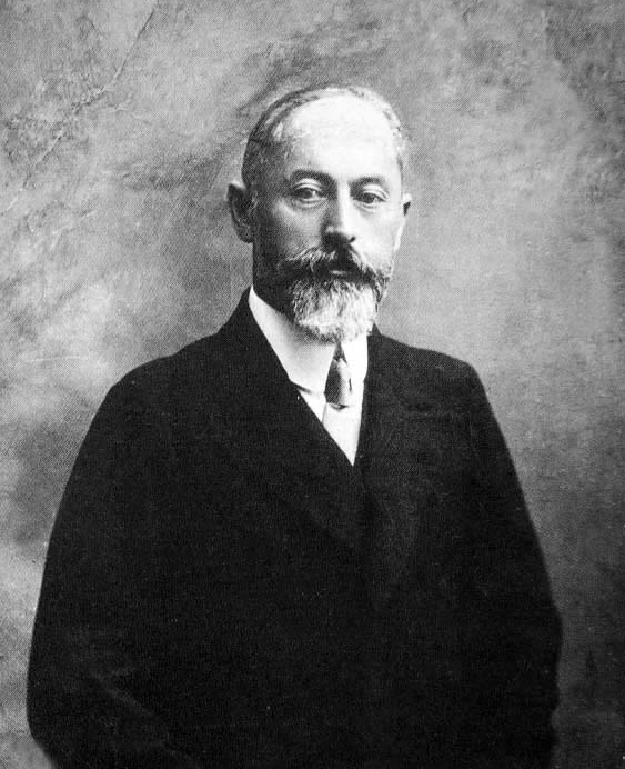 Georgian journalist and politician Noe Zhordania